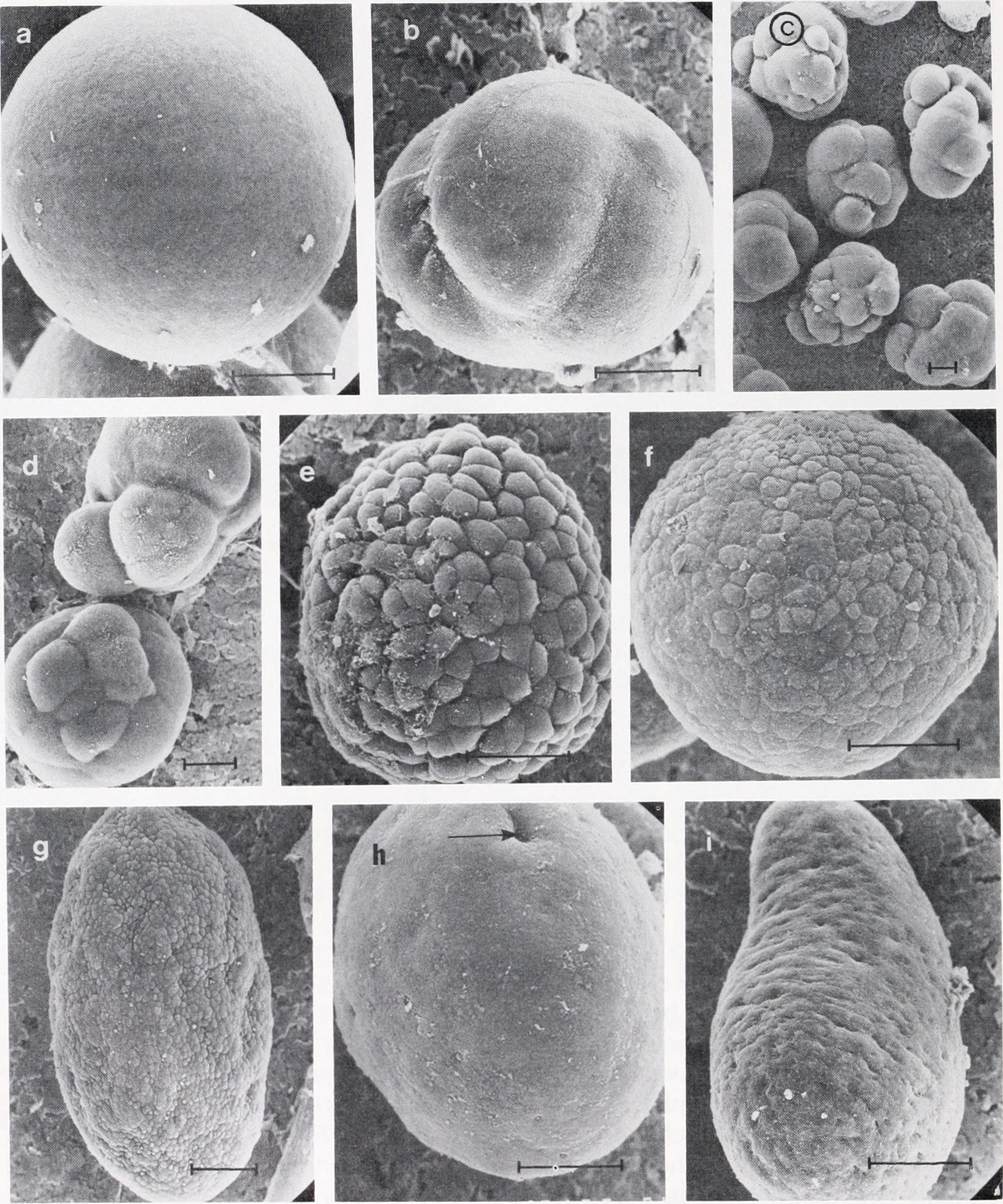 Title: The Biological bulletin Year: [1] (s) Authors: Marine Biological Laboratory (Woods Hole, Mass. ); Marine Biological Laboratory (Woods Hole, Mass. ). Annual report 1907/08-1952; Lillie, Frank Rattray, 1870-1947; Moore, Carl Richard, 1892-; Redfield, Alfred Clarence, 1890-1983 Subjects: Biology; Zoology; Biology; Marine Biology Publisher: Woods Hole, Mass. : Marine Biological Laboratory Text Appearing Before Image: 362 Y. BENAYAHU AND Y. LOYA Text Appearing After Image: FIGURE 7. Embryogenesis of the planula larva of Parerythropodium fulvum fulvum. Bar = 100 . a: an egg without follicular layer, b: first two divisions of the egg. c: young embryos, d: irregular embryos, e: 24 h blastula. f: 48-72 h blastula. g: gastrula, 4 days after fertilization, h: young planula, arrow points to mouth opening, i: mature planula. Planulae structure and behavior Seven days after fertilization the mucus with the mature planulae in it starts to detach from the surface of the colonies and sink near the "mother colony" (Fig. 8d). The mucoid substance starts to degrade, and the larvae begin to move with their cilia. Figure 8e presents a fractured mature planula, where dense ciliary ec